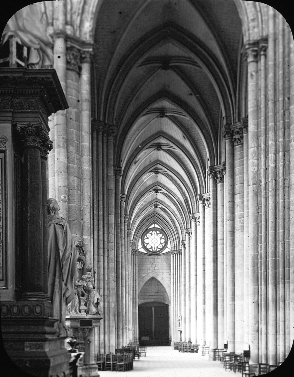 Cathedral, Amiens, France, 1903. [Amiens Cathedral north aisle]. Brooklyn Museum Archives, Goodyear Archival Collection (S03_06_01_003 image 755).